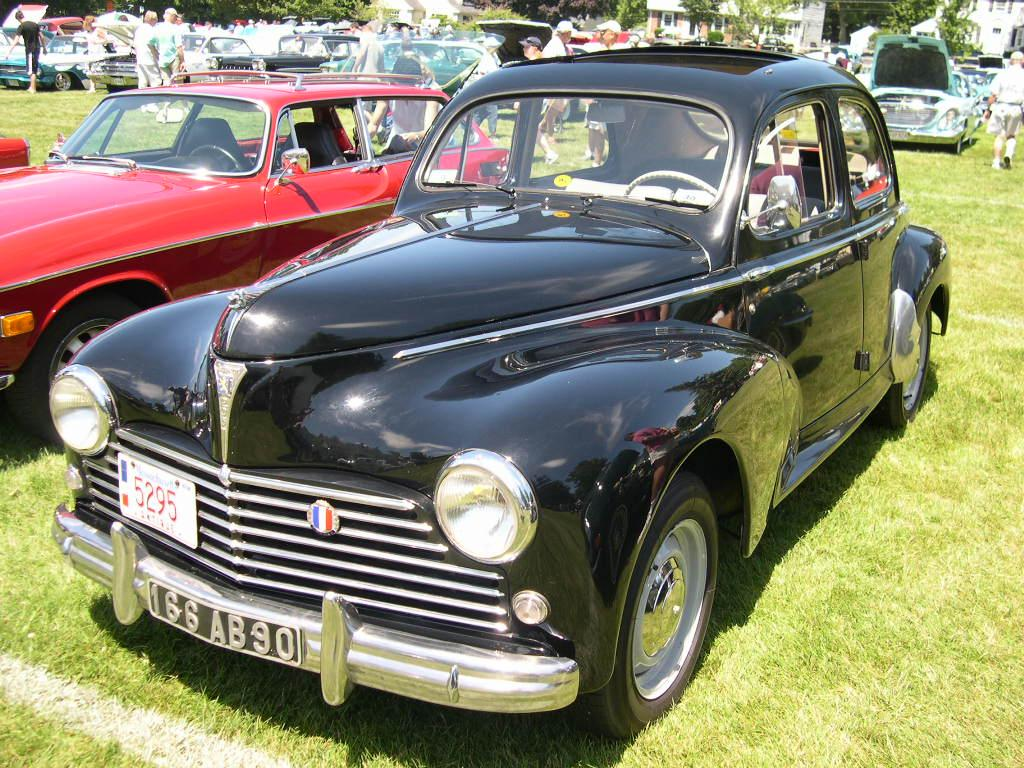 Peugeot 203 Coupe Source: Photographed at the Bay State Antique Automobile Club's July 10, 2005 show at the Endicott Estate in Dedham, MA by User:Sfoskett